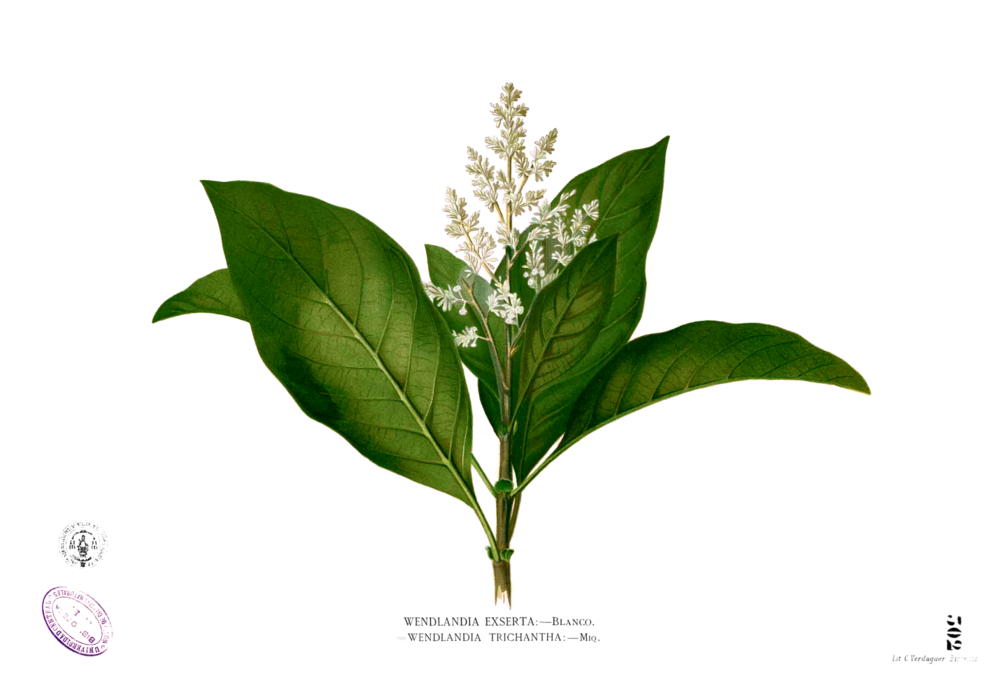 Wendlandia luzoniensis Plate from book